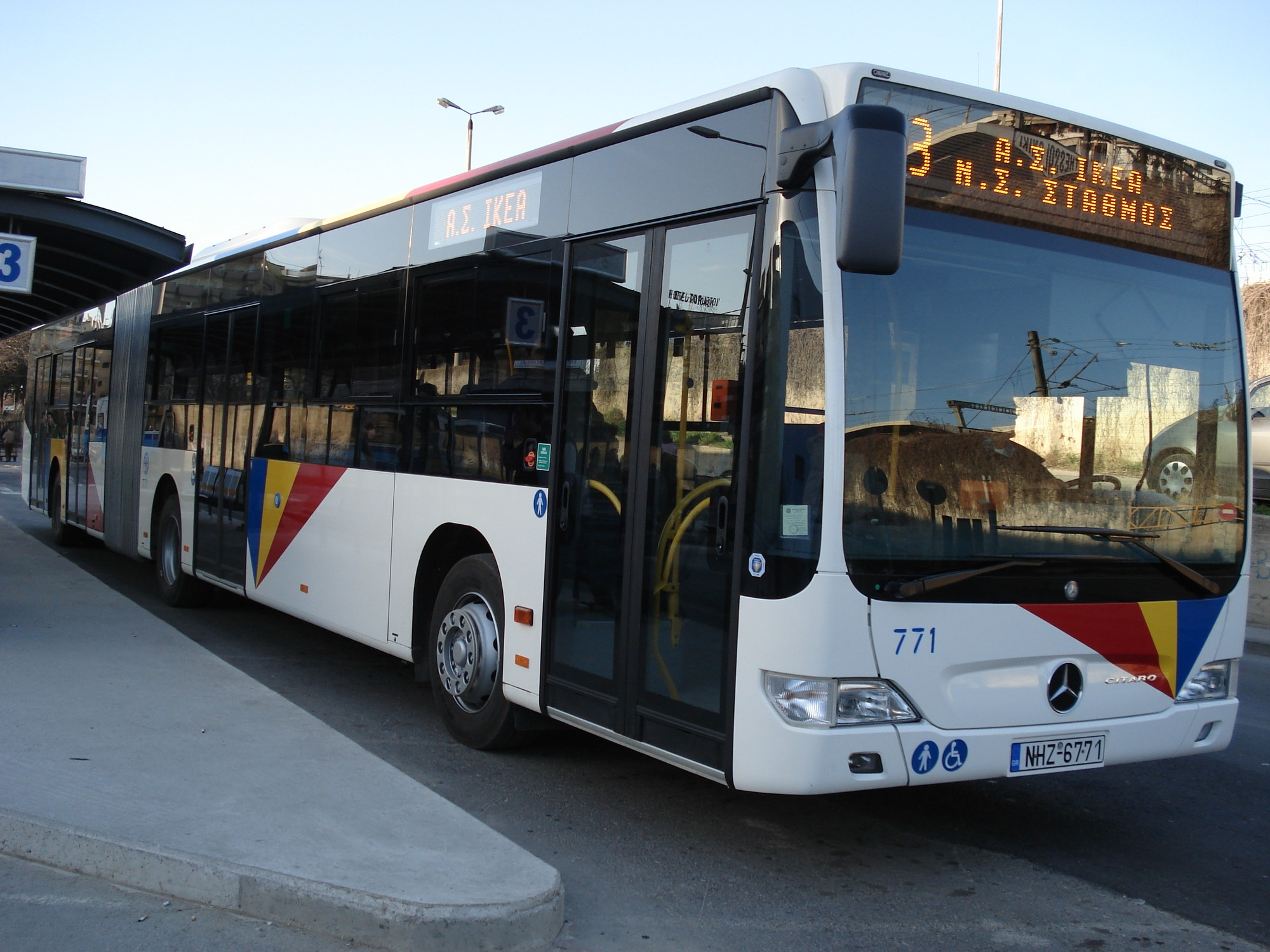 Mercedes-Benz Citaro O530G bus of Thesalloniki public transport organization